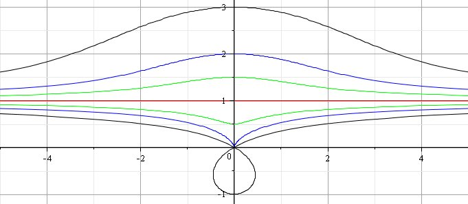 Conchoid of Nicomedes